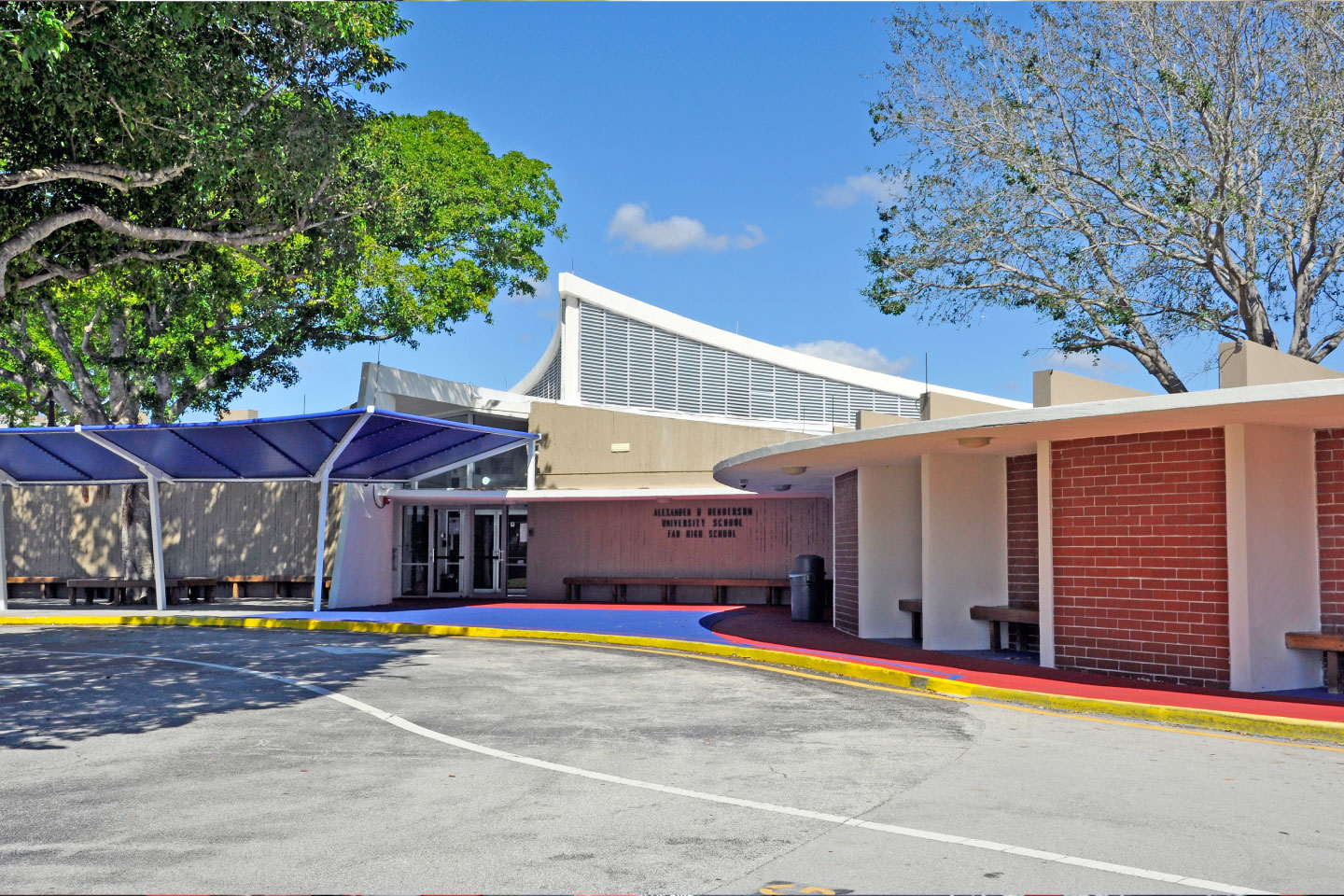 Alexander D. Henderson University School is a public elementary and middle school on the campus of Florida Atlantic University in Boca Raton. A.D. Henderson is a developmental research (lab) school established in 1968 to enhance instruction and research in specialized subjects to improve outcomes for all students in the country.